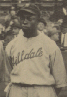 Clint Thomas at the 1924 Colored World Series LOC states here that there are no restrictions on use of this image, therefore it is PD. This file has been extracted from another file: 1924 Negro League World Series.jpg